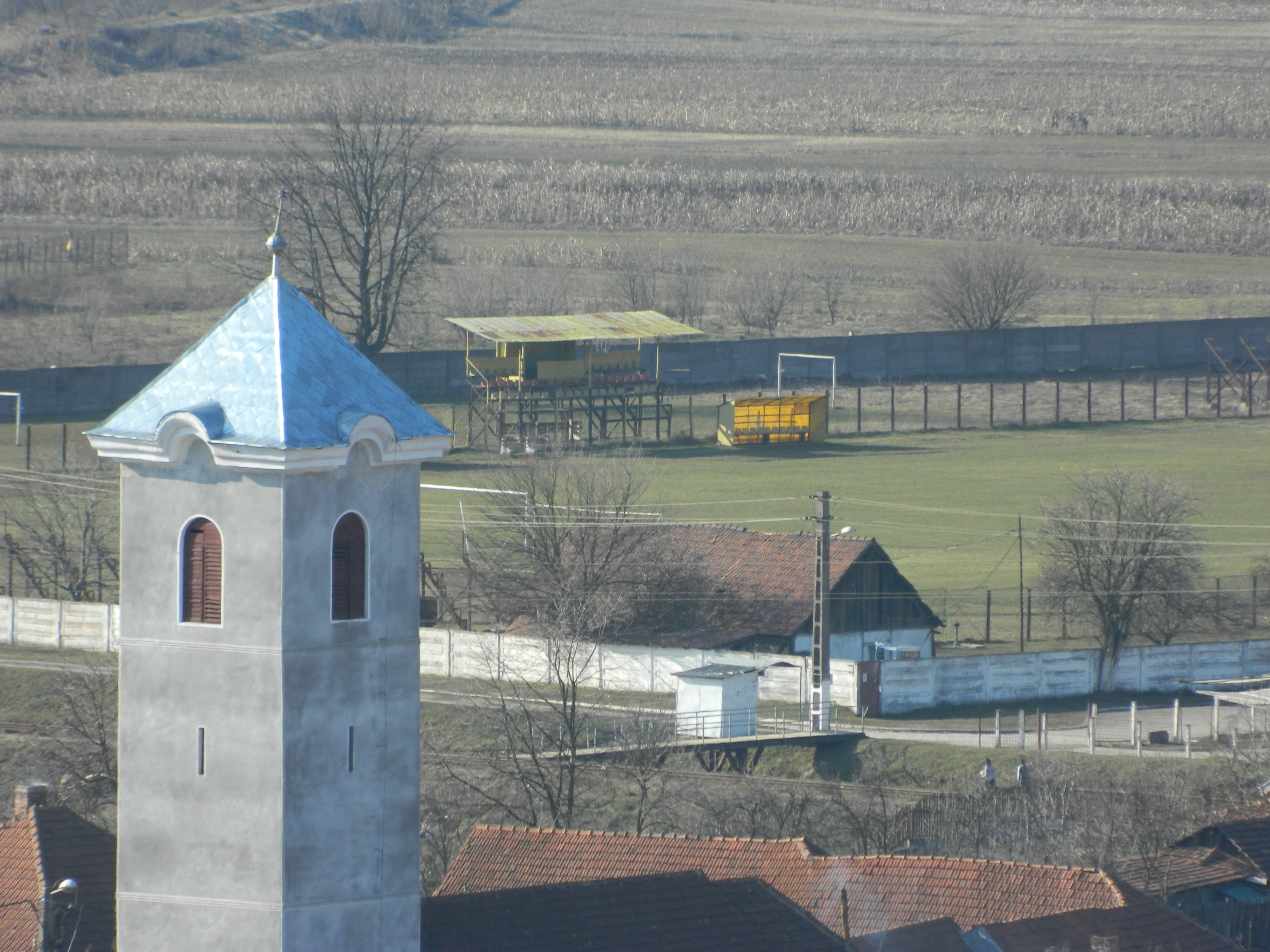 Stadion Aurul Brad